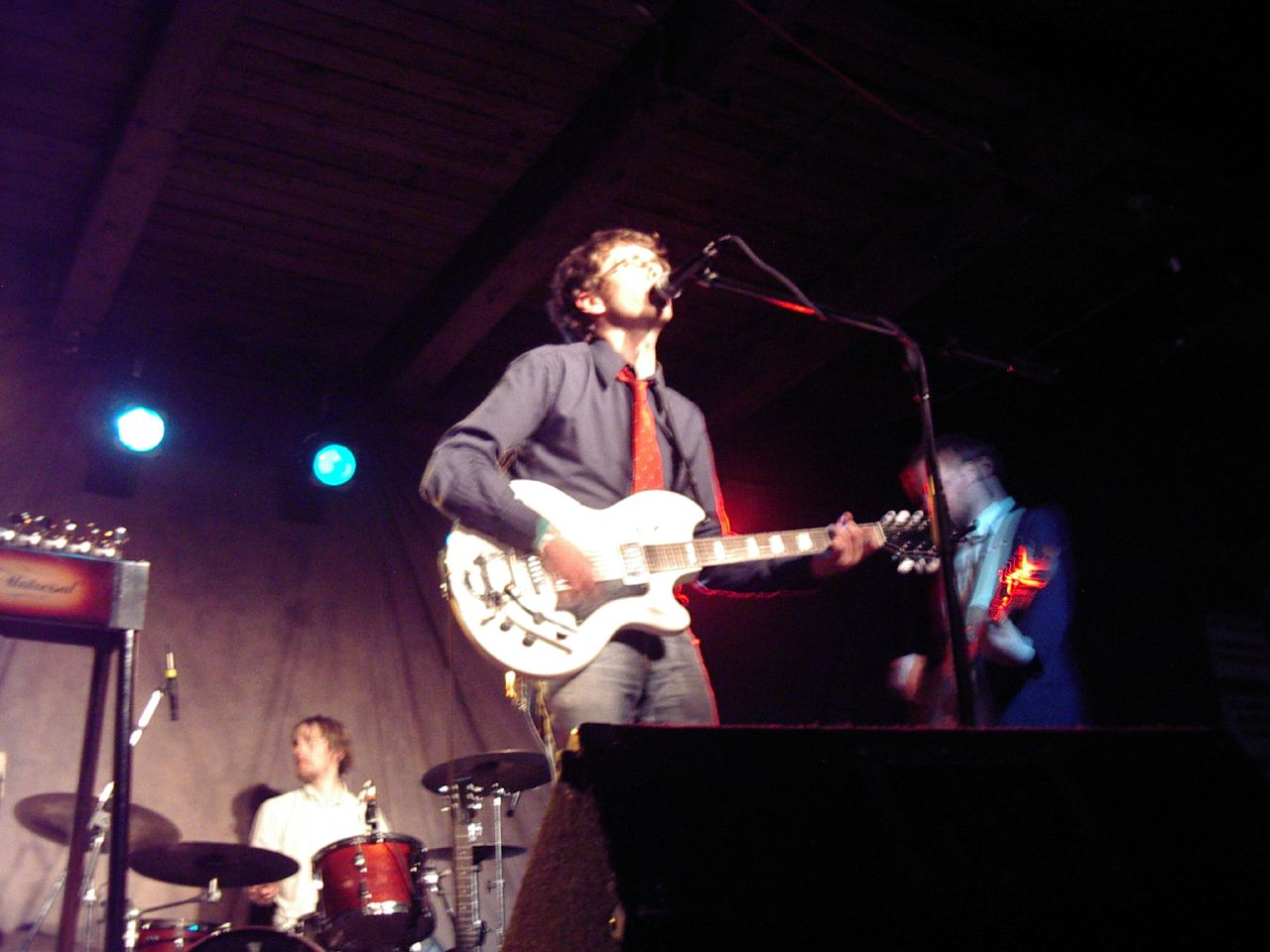 Canadian band Cuff the Duke playing at the Exchange in Regina, Saskatchewan Canada.